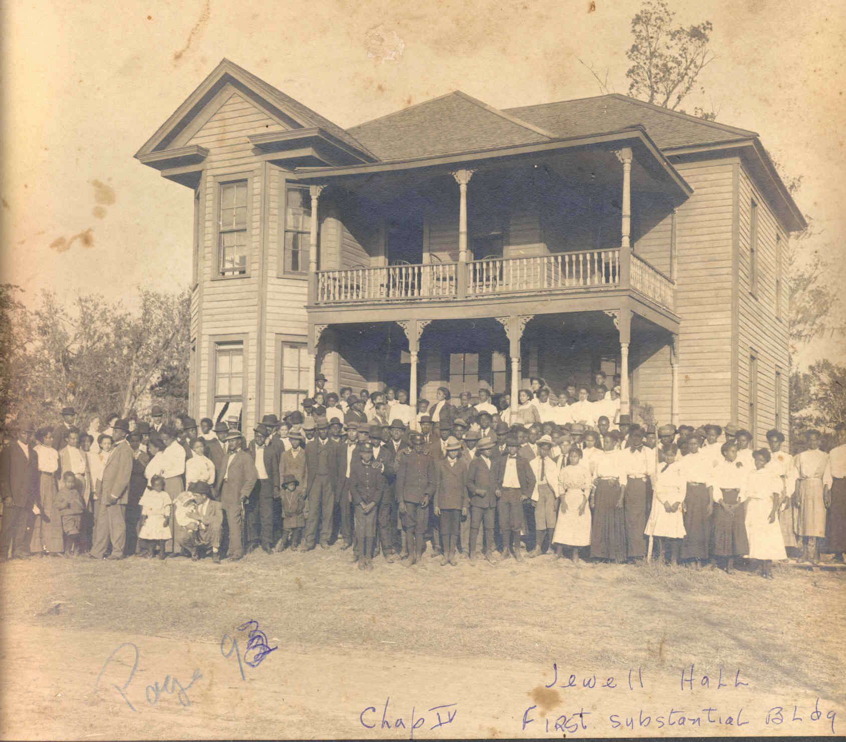 From the Utica Normal and Industrial Institute Collection. Photograph of Jewett Hall the first substantial building donated by Miss Fidelia Jewett.